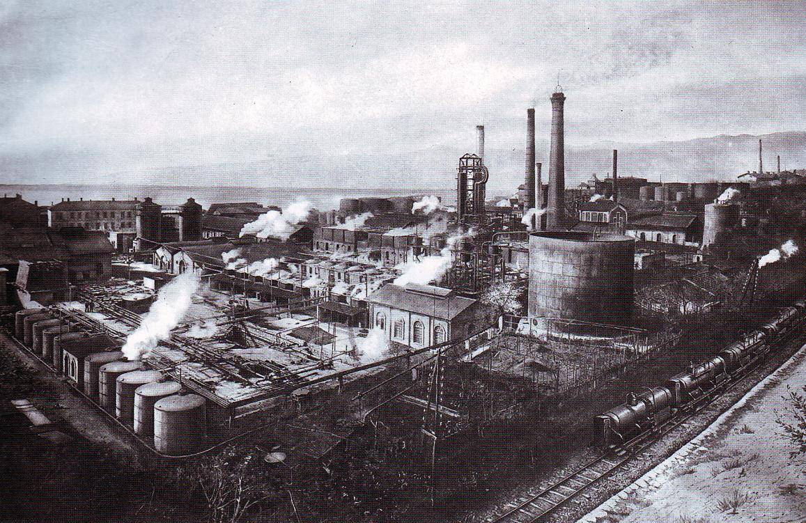 Rijeka oil refinery (Raffineria di Olii Minerali S.A. Fiume) in around 1930